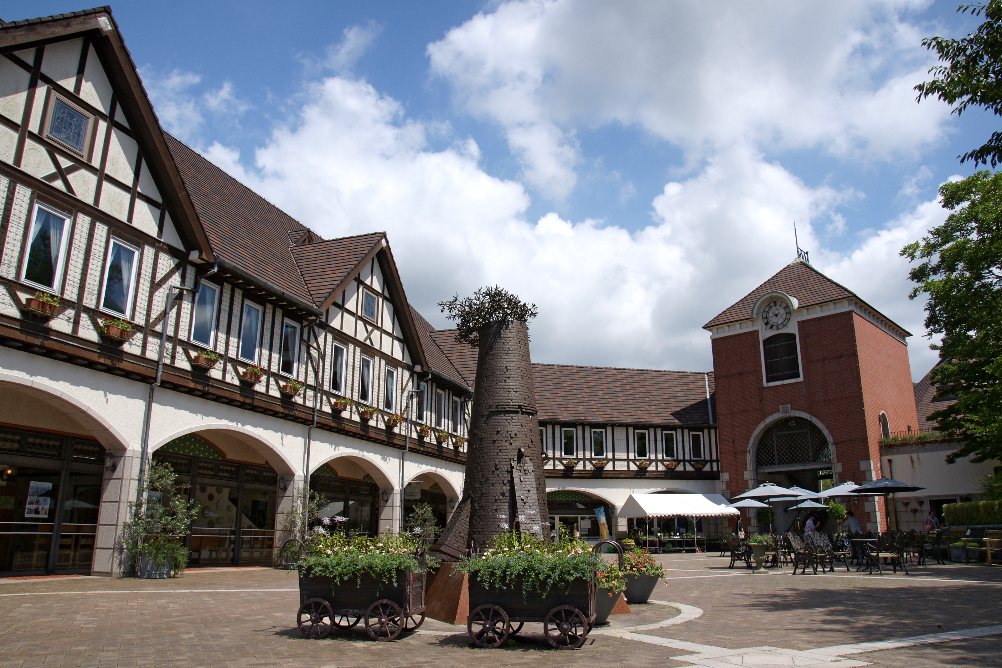 Nunobiki Herb Garden in Kobe, Hyogo prefecture, Japan